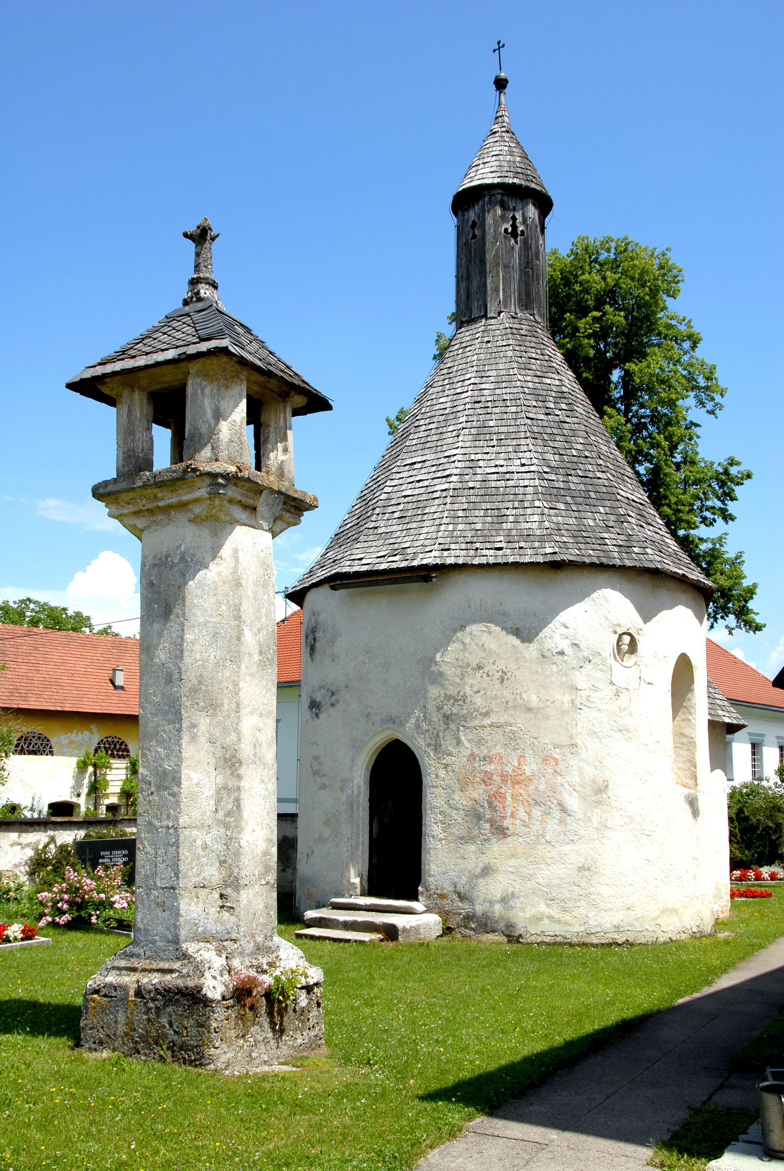 Light pillar and charnel house on the cemetery of Globasnitz, municipality Globasnitz, district Voelkermarkt, Carinthia / Austria / EU